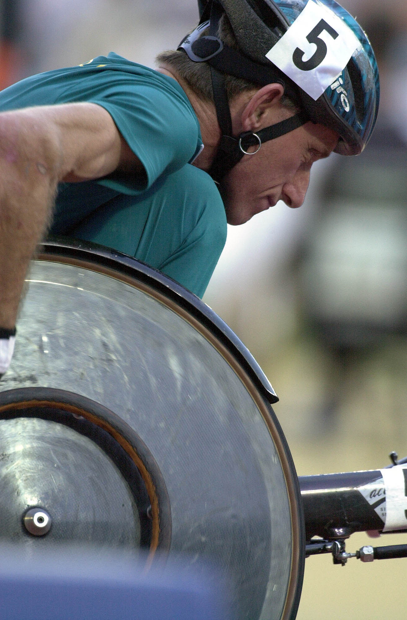 Action shot, close up, of Australian wheelchair racer Fabian Blattman during the 800 m T51 final event at the 2000 Sydney Paralympic Games, Day 03